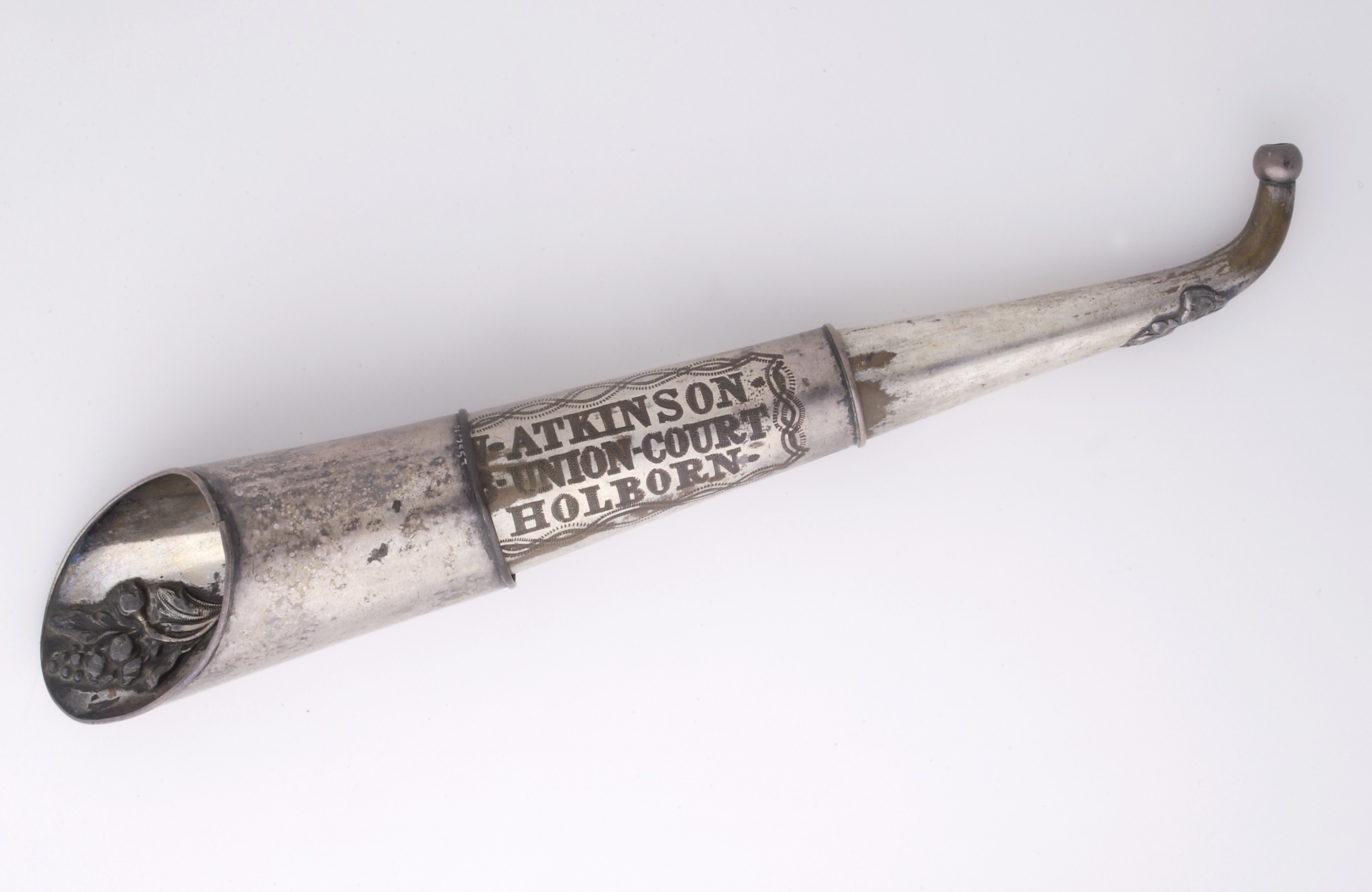 A collapsible Victorian ear trumpet made of tin made by Atkinson, Union Court, Holborn, London Wellcome Images Keywords: Hearing Aid; Deafness; Hearing Aids